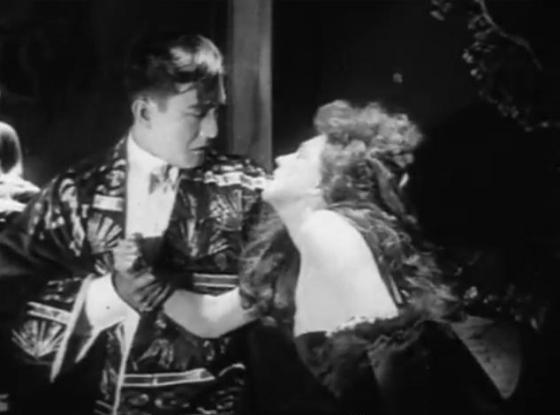 Sessue Hayakawa and Fannie Ward in The Cheat (1915).